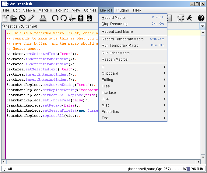 jEdit text editor screenshot, shows macro recording and generated BeanShell code